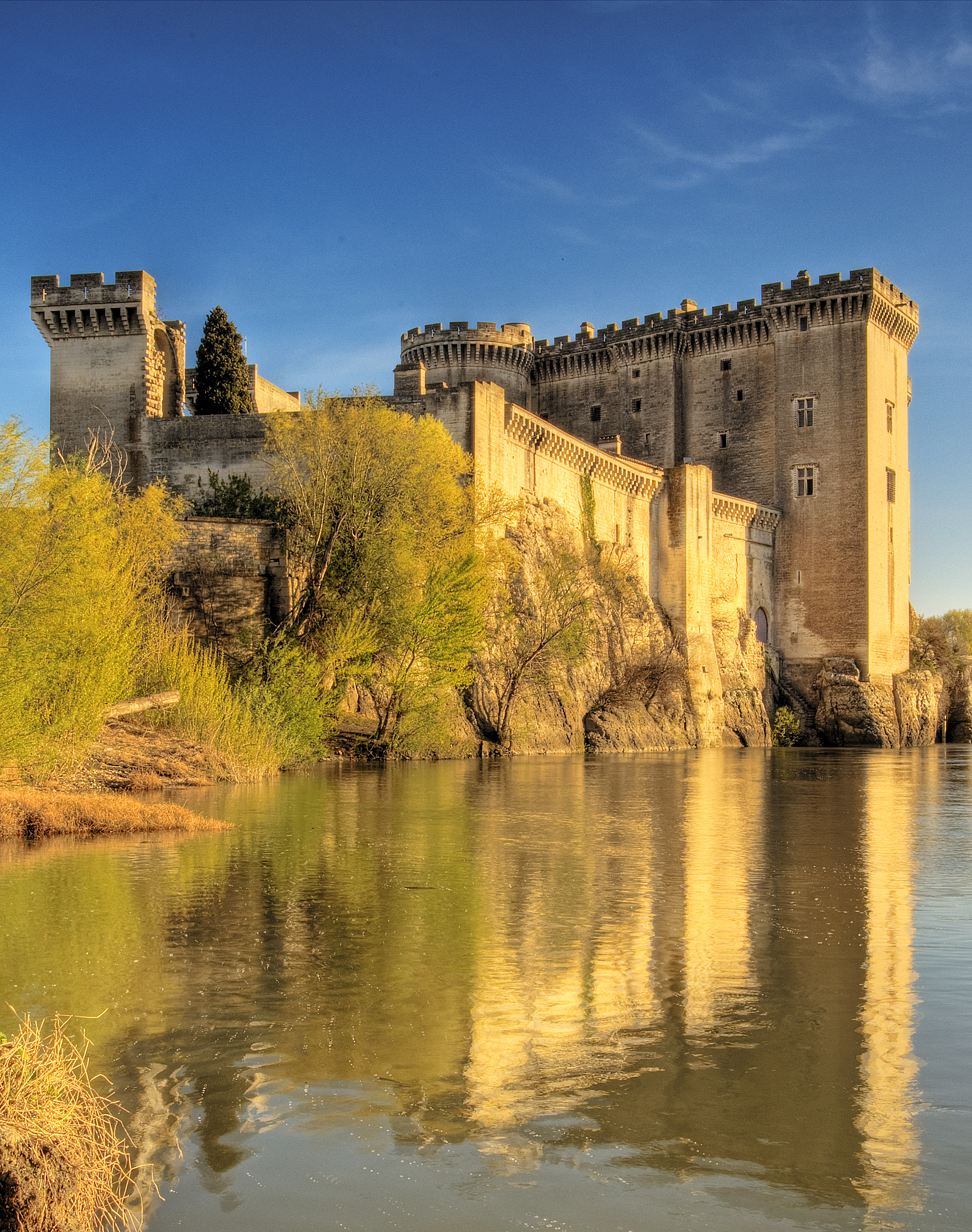 The castle of Tarascon in the town in the Bouches-du-Rhône département, in the south of France.